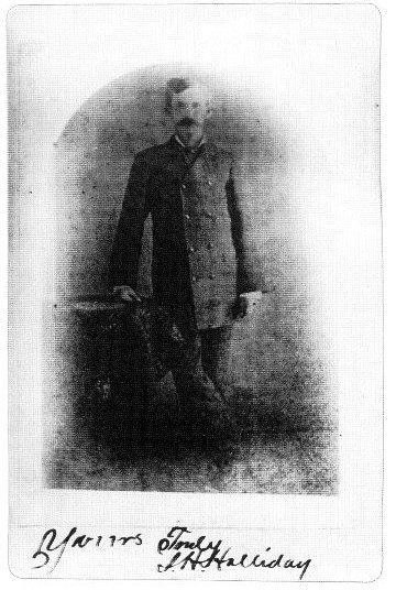 This is a copy of a photograph taken by an unattributed author in 1879.